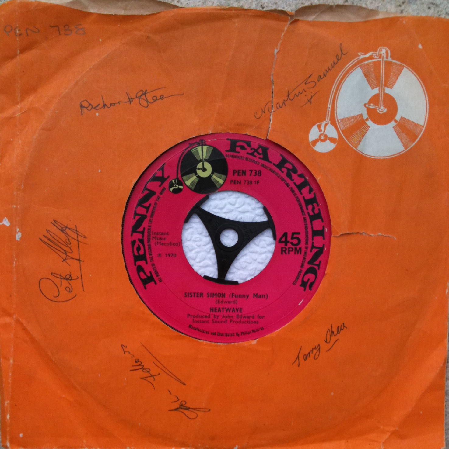 Heatwave autographed record cover 1970.